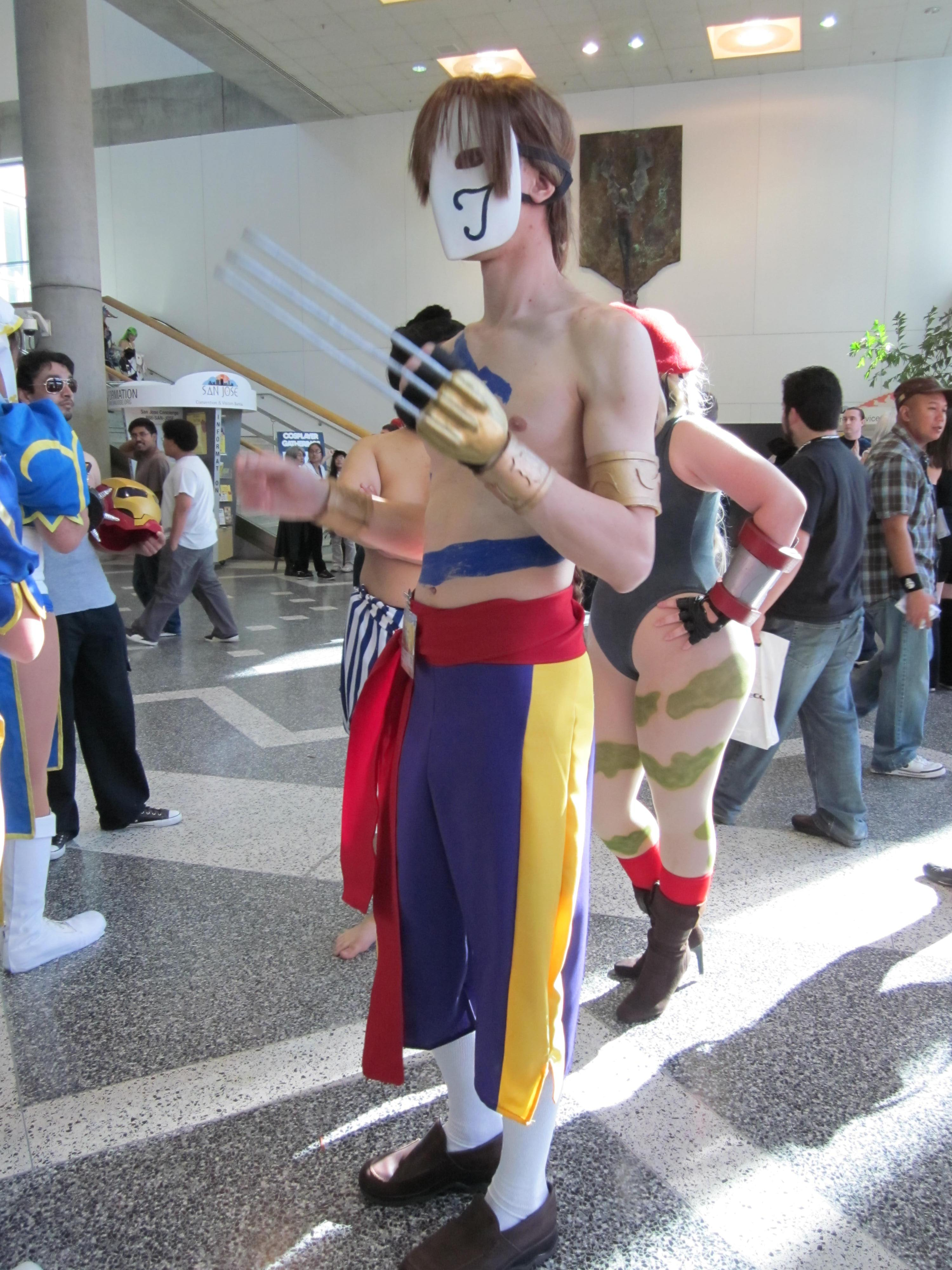 A cosplayer portraying Vega from Street Fighter at FanimeCon 2010 in San Jose, California.